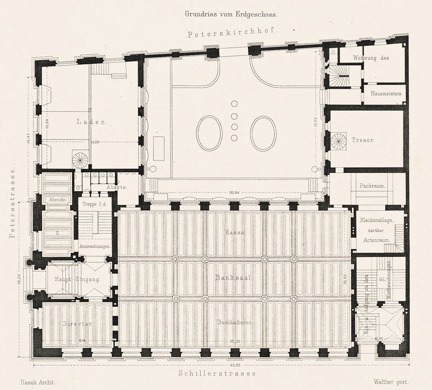 Hasak Max (1856-1934), Reichsbankgebäude, Leipzig. (Aus: Atlas zur Zeitschrift für Bauwesen, hrsg. v. Ministerium der öffentlichen Arbeiten, Jg. 41, 1891): Grundriss EG, 1.OG. Stich auf Papier, 46 x 30 cm (inkl. Scanrand). Architekturmuseum der Technischen Universität Berlin Inv. Nr. ZFB 41,053.